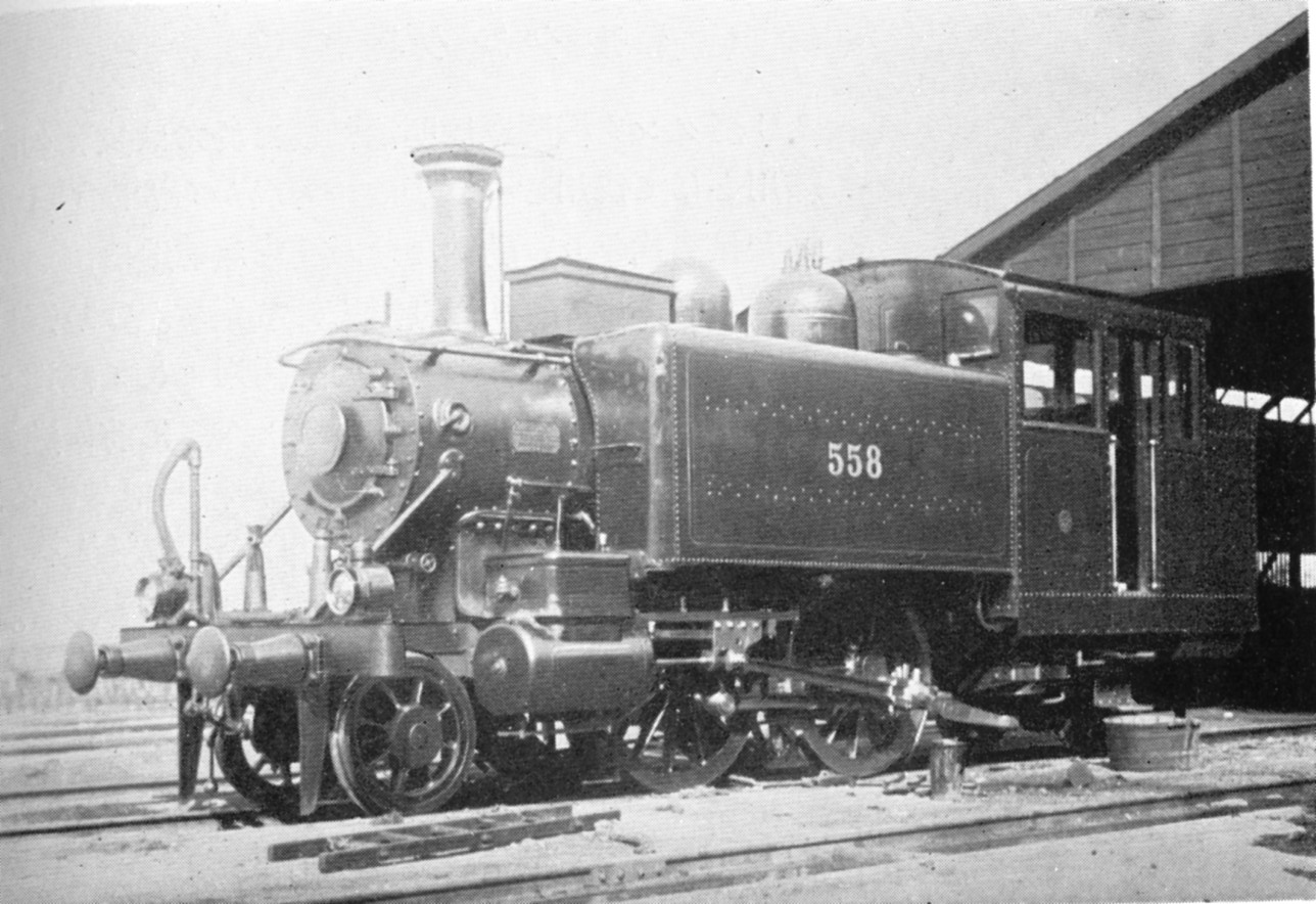 Japan Government Railway type 900 steam locomotive (ex. Nippon Railway 558)